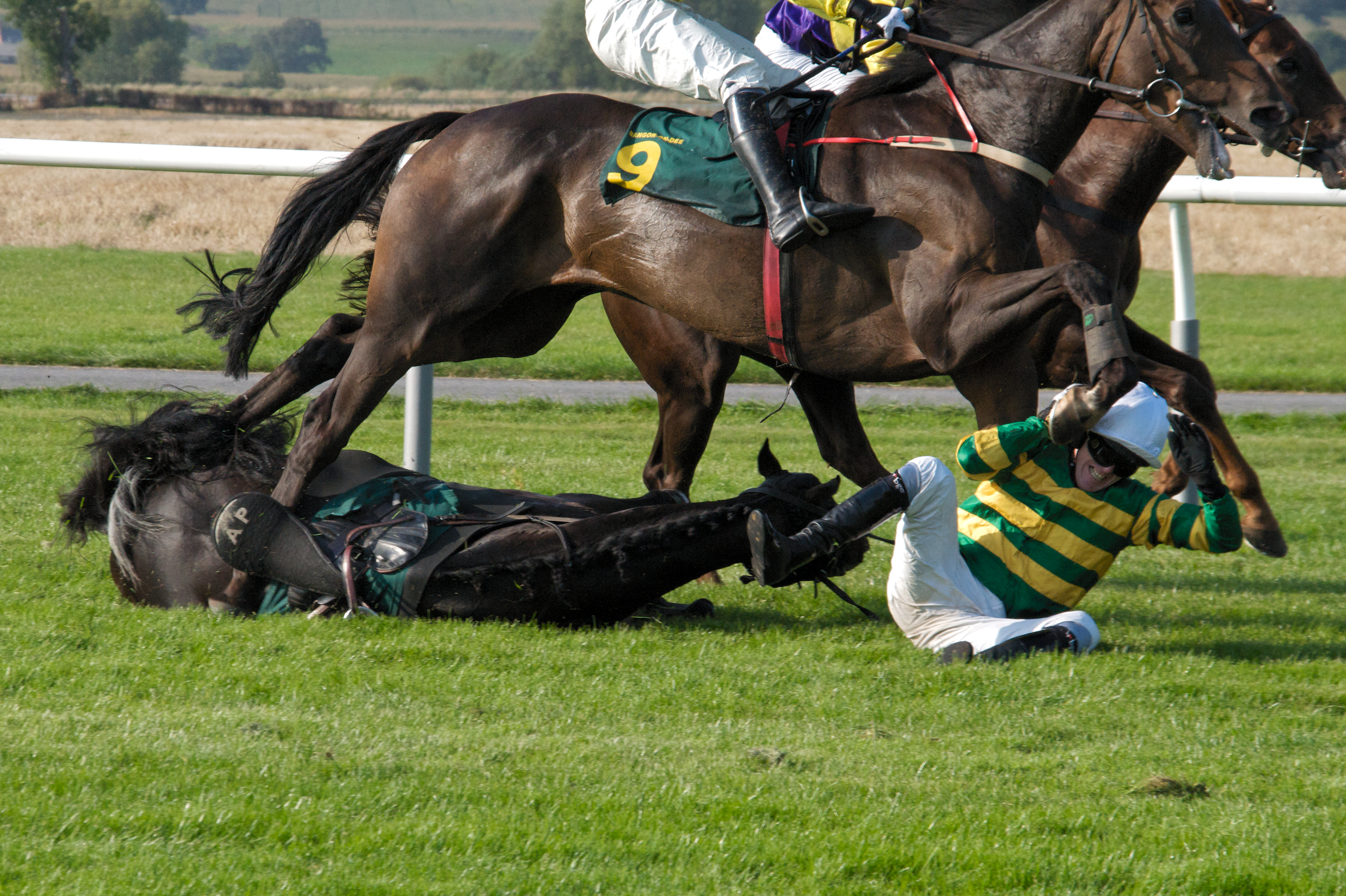 Jockey AP McCoy falls from racing on 11 September, 2009 in Bangor-On-Dee racecourse. See deteils from Racing Post